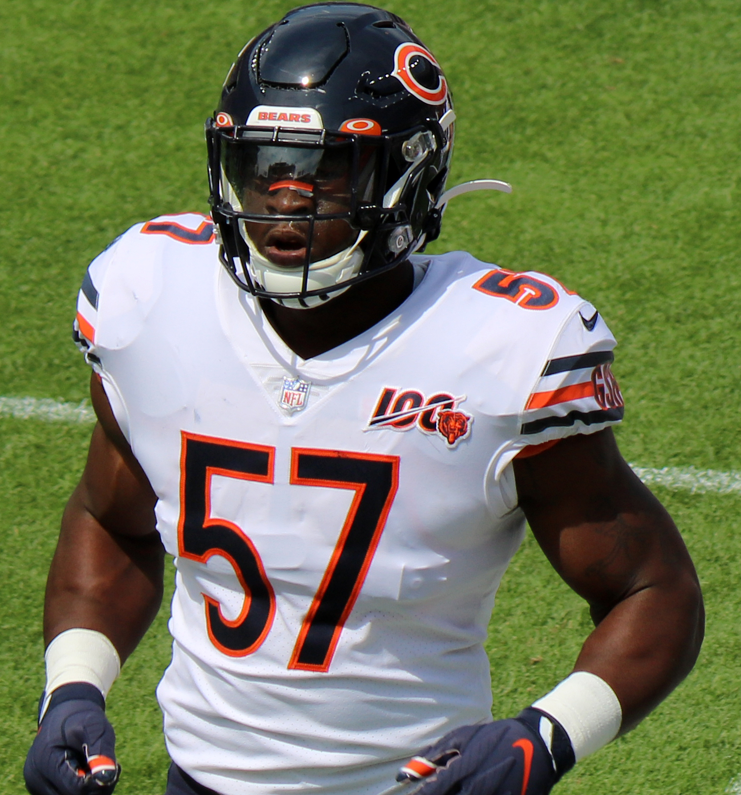 Kevin Pierre-Louis, a National Football League player.